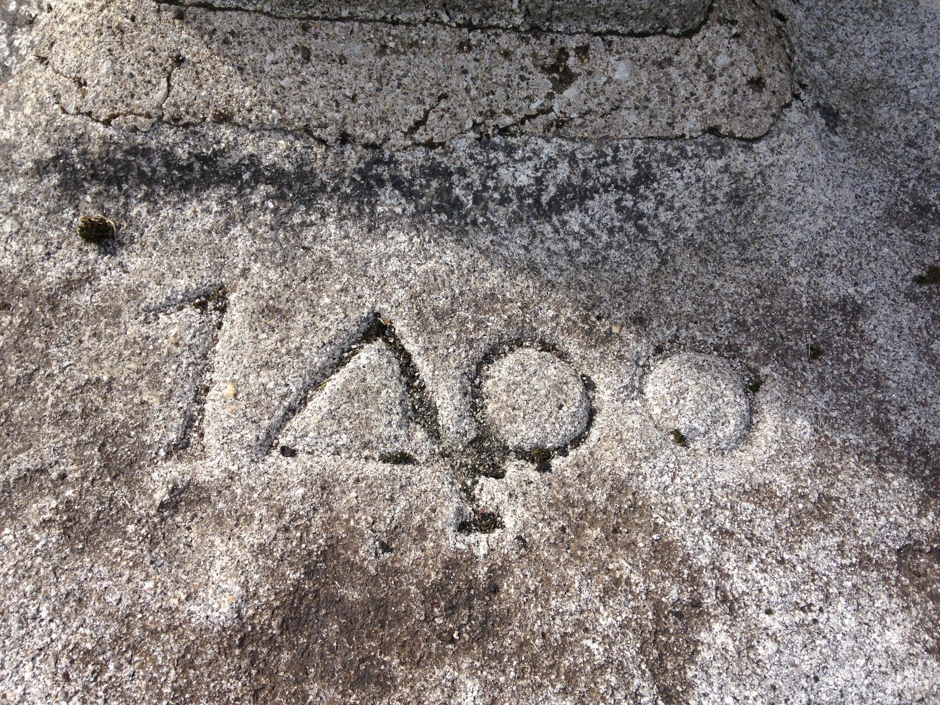 St Marks Cross (Carving at the base of the cross) Blessington, Wicklow, Ireland